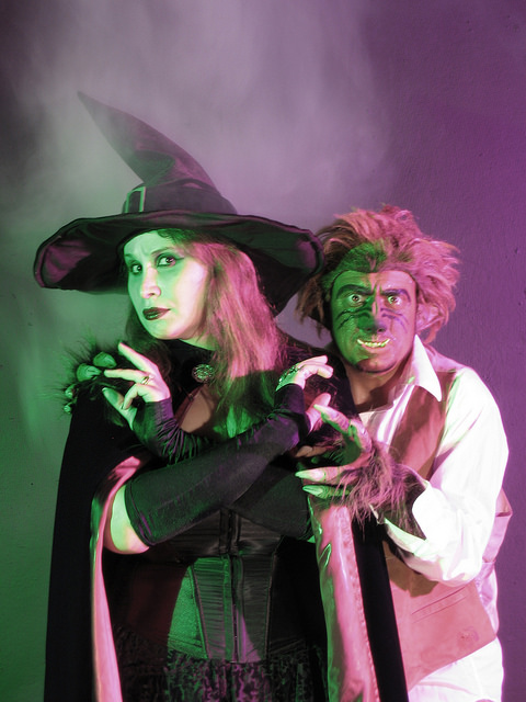 The Witch Penny Dreadful XIII and her "snarling darling", Garou